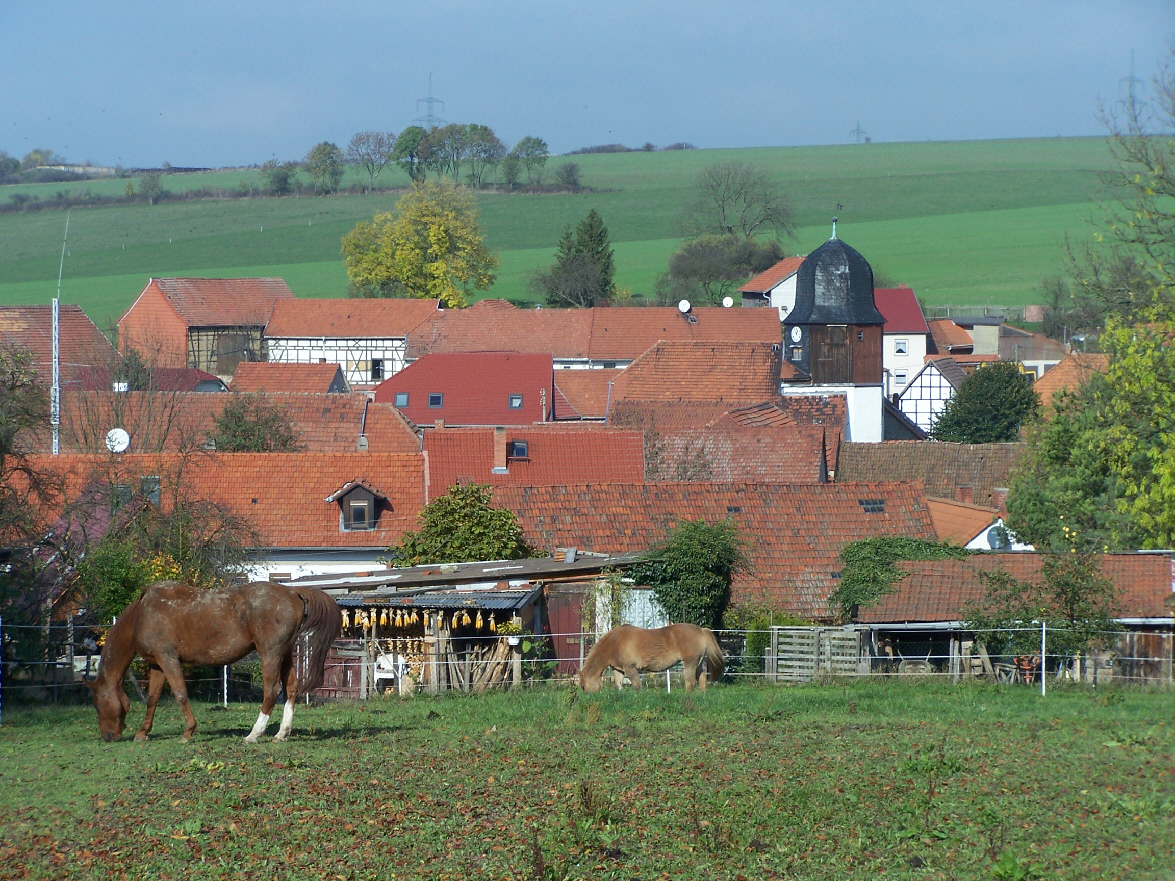 The village Melborn.